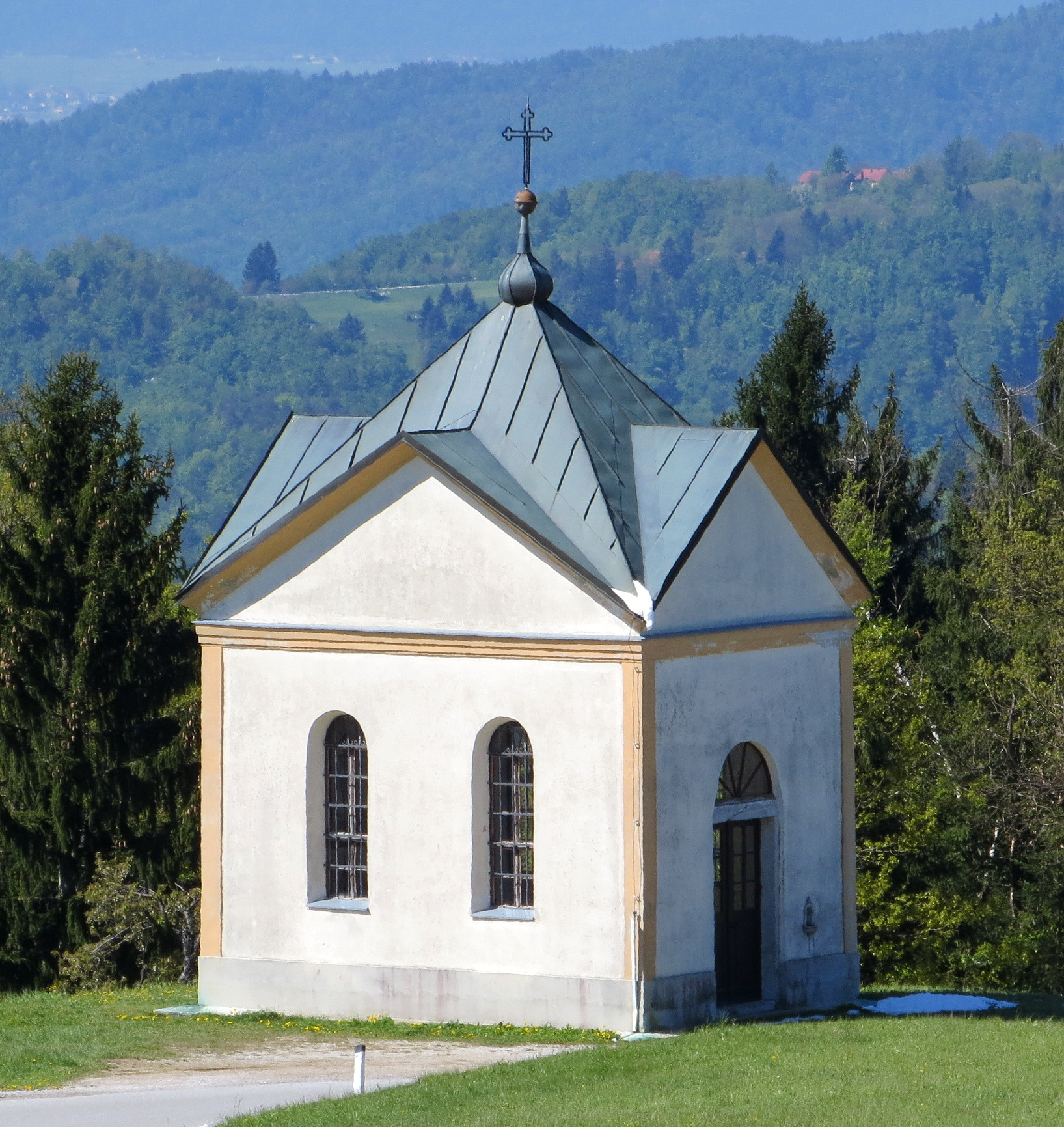 Chapel in Janče, City Municipality of Ljubljana